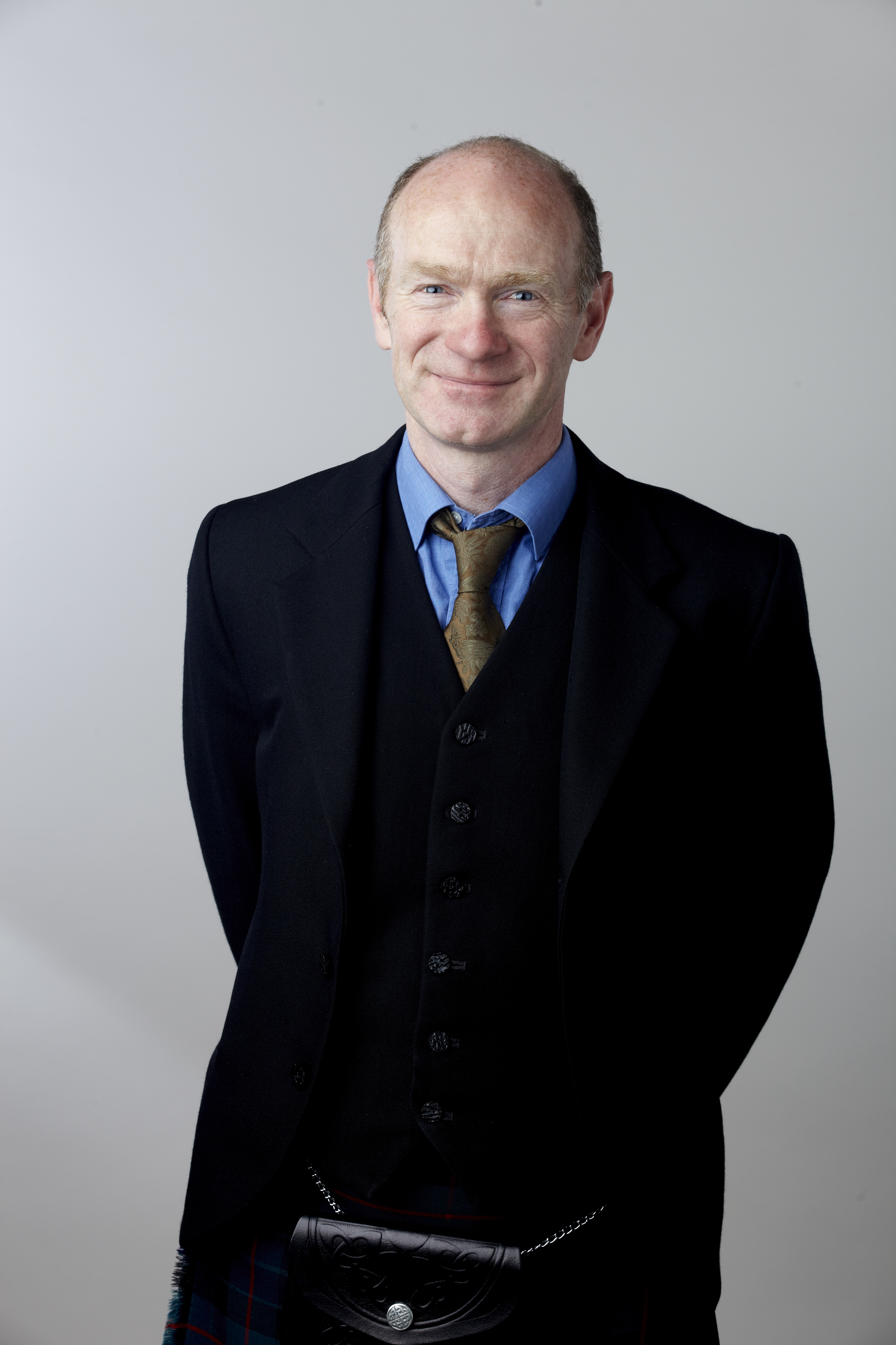 Professor Peter Keightley FRS, Royal Society Fellow elected 2014 Attribution: The Royal Society